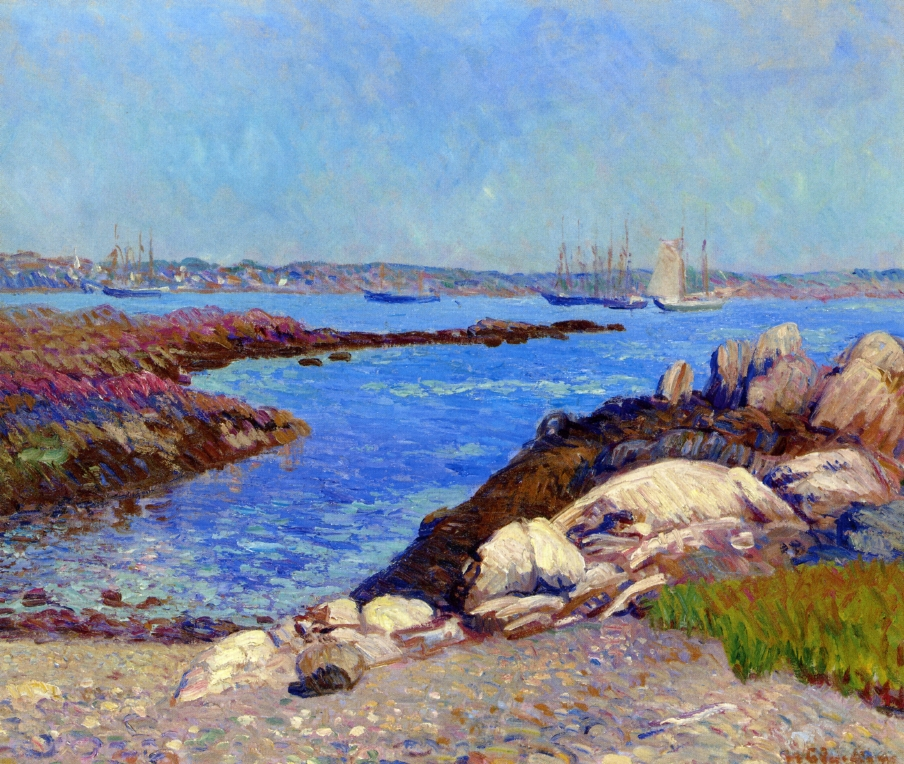 "Portsmouth Harbor, New Hampshire" by American artist William James Glackens, oil on canvas.